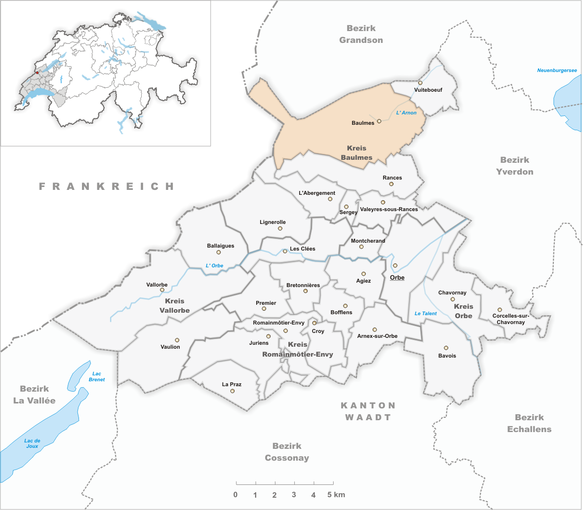 Municipality Baulmes